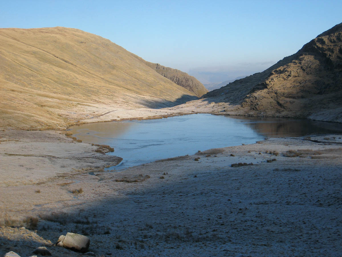 Styhead Tarn from above, frozen on New Year's Day 2009